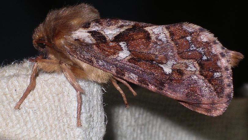 Map winged swift moth